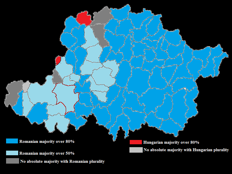 Ethnic map of Arad County, based on the 2011 census.